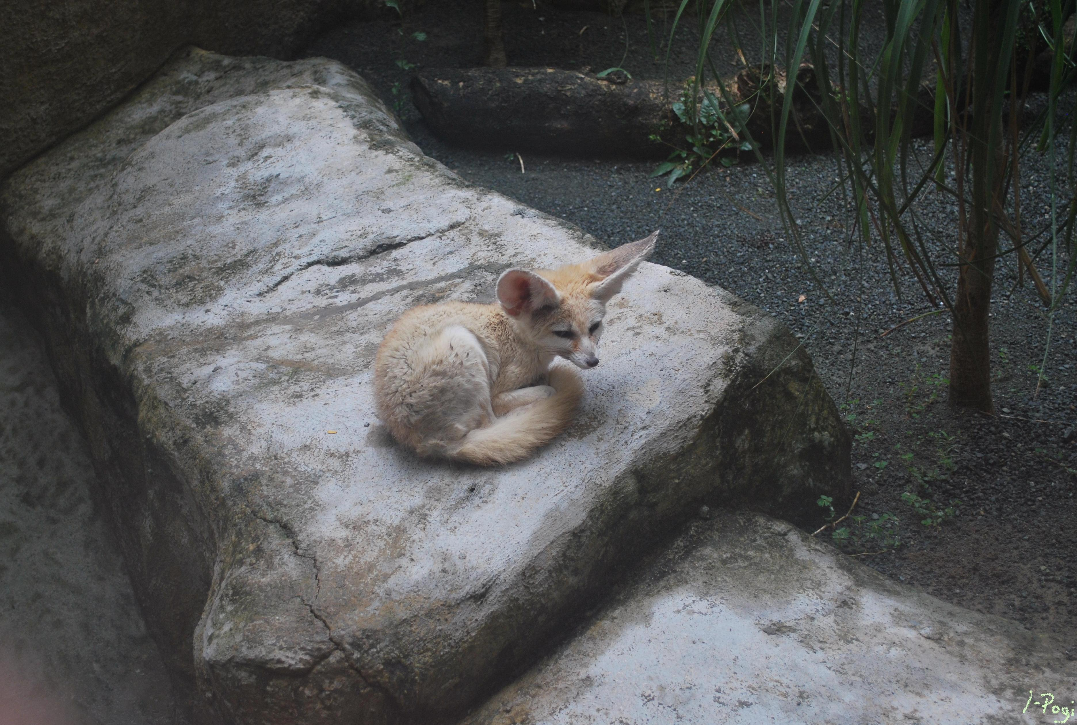 Fennec fox (Vulpes zerda), in captivity